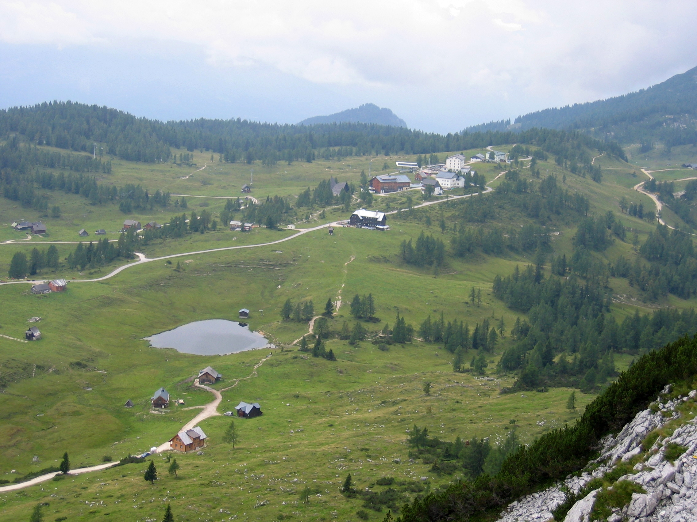 Tauplitzalm and -lake as seen from Traweng summit